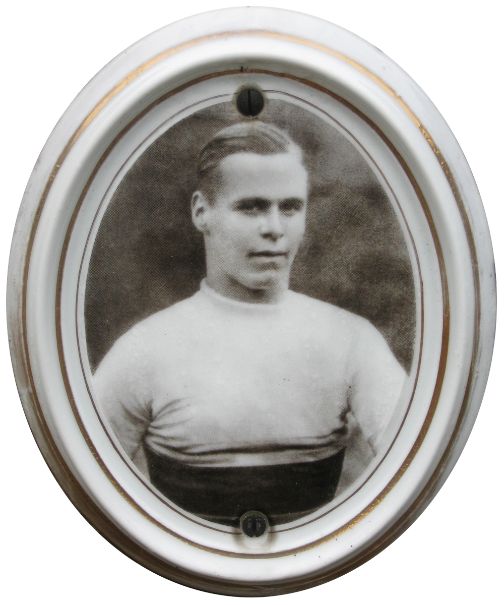 Cyclist Albert Richter wearing the World Champion 1932 dress. Biographer Renate Franz notes on this, that the picture, due to Belgian custom, was ordered and applicated to the tombstone by Richter's Belgian friend and former competitor Jef Scherens, in 1955. The tomb is on 'Melaten' cemetery, Köln, Germany.